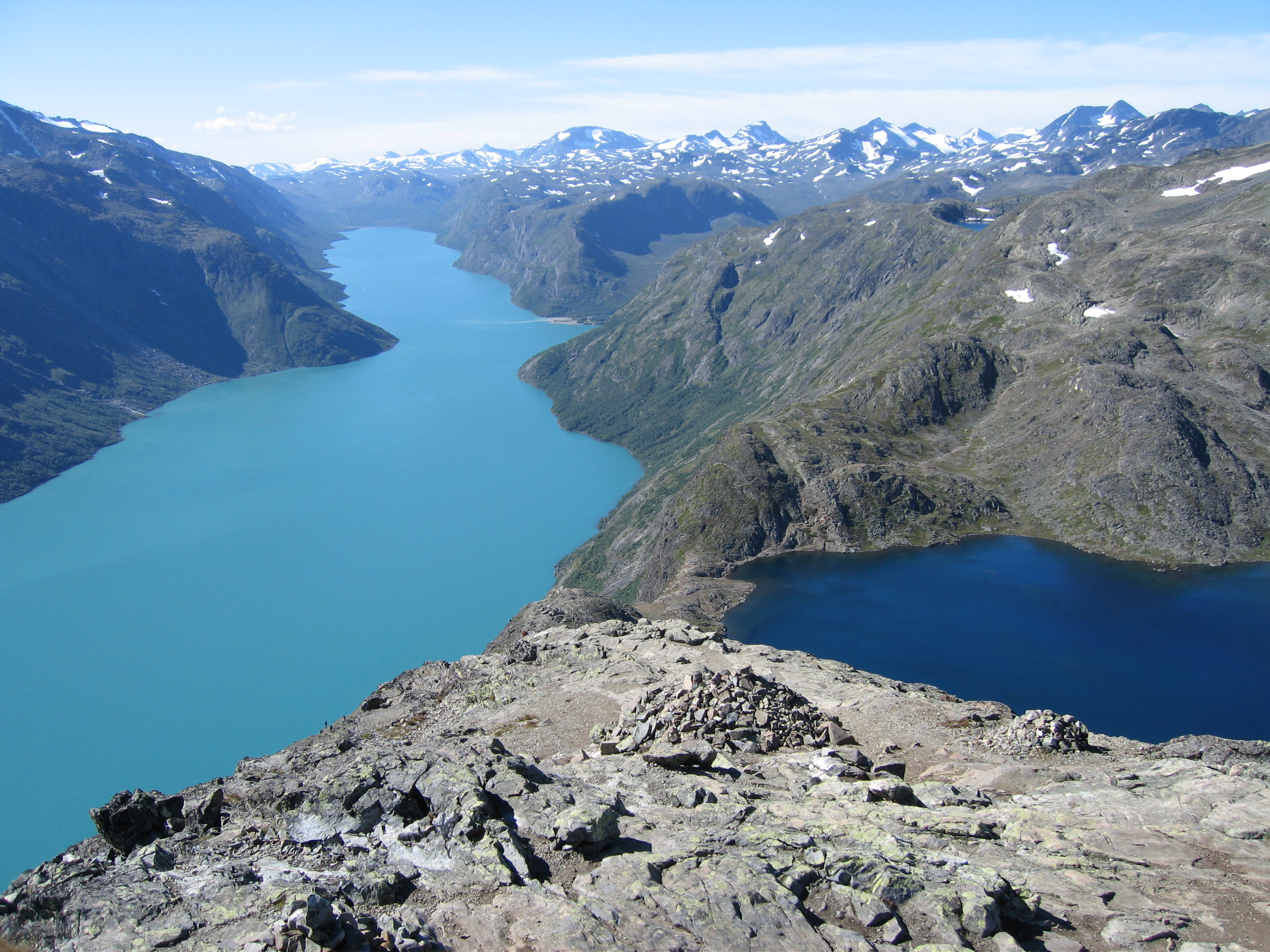 The lake Gjende (983 MSL) to the south (left) and the lake Bessvatnet (1373 MSL) to the north (right).